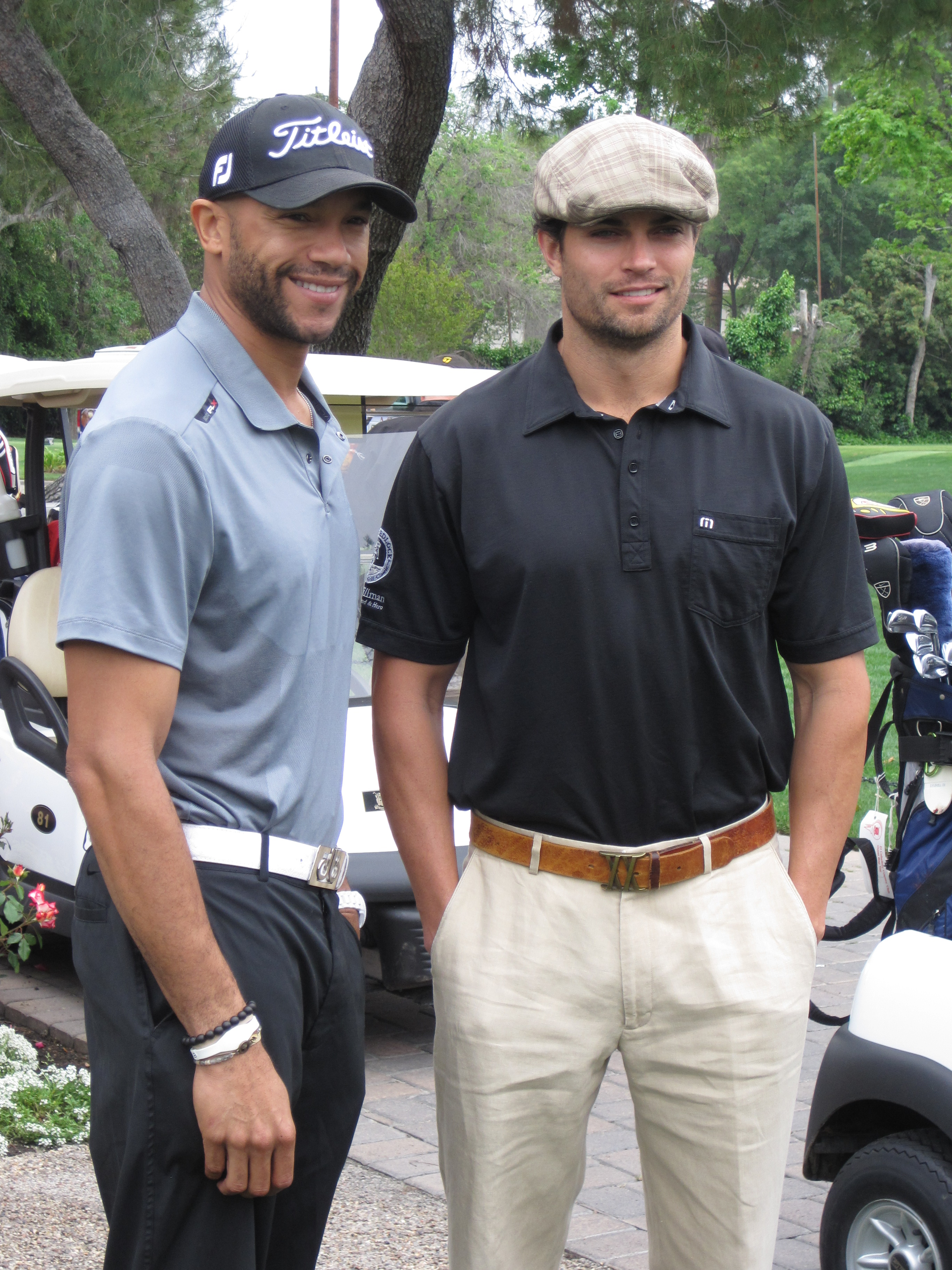 Stephen Bishop & Scott Elrod at the 8th Annual Hack n' Smack Celebrity Golf Tournament in 2011